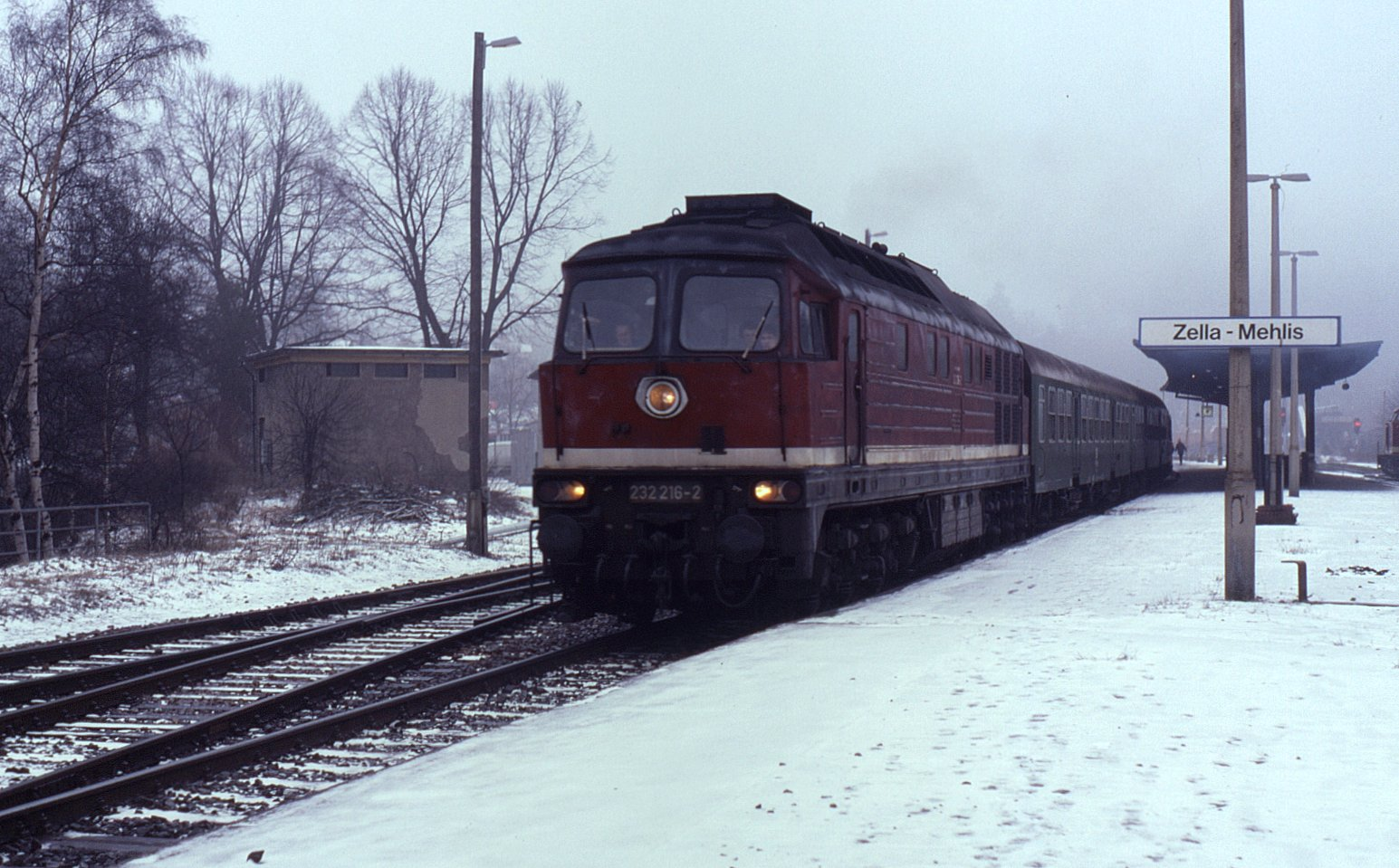 232 216-2 at a snowy Zella-Mehlis on 22 January 1994.